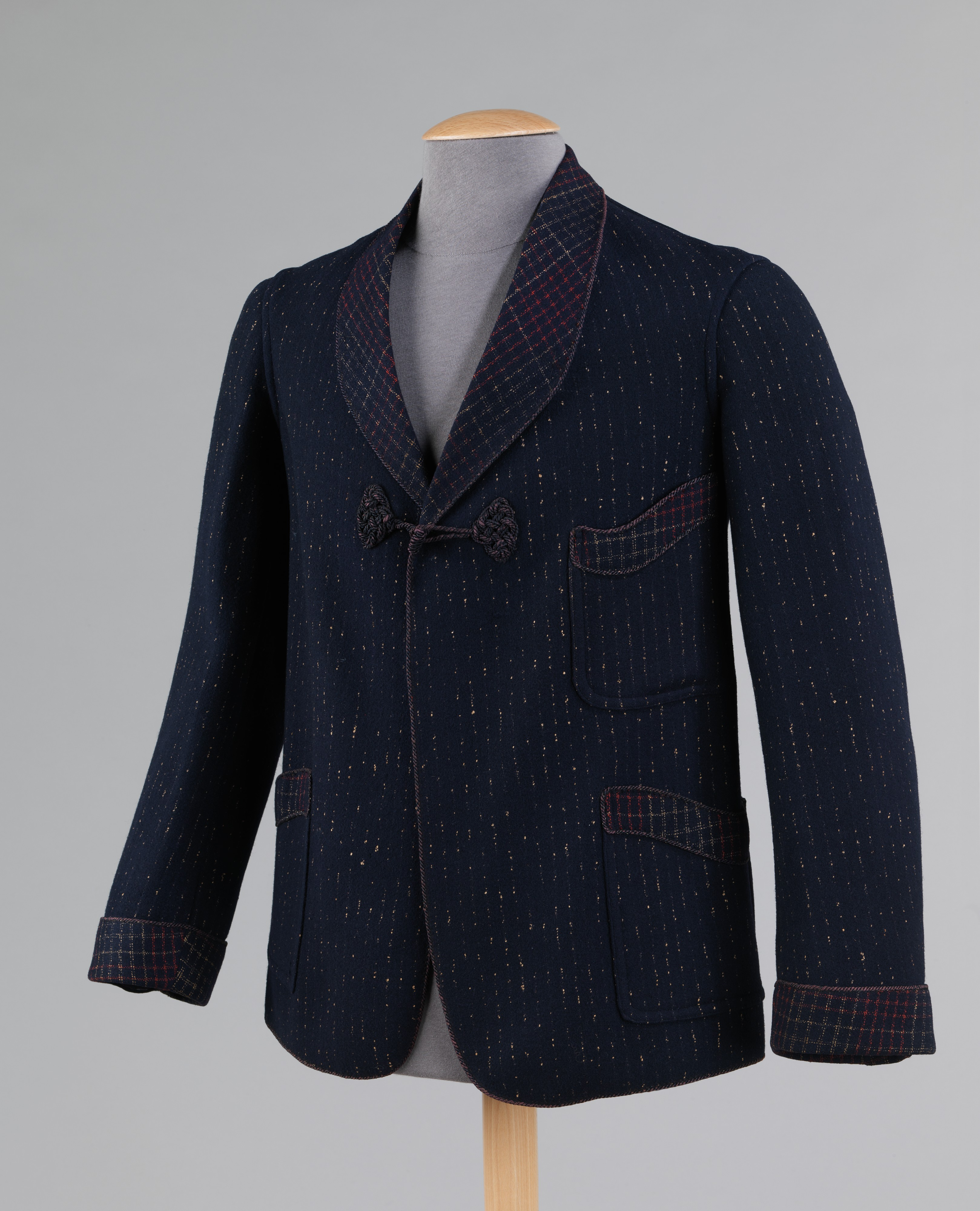 American; Smoking jacket